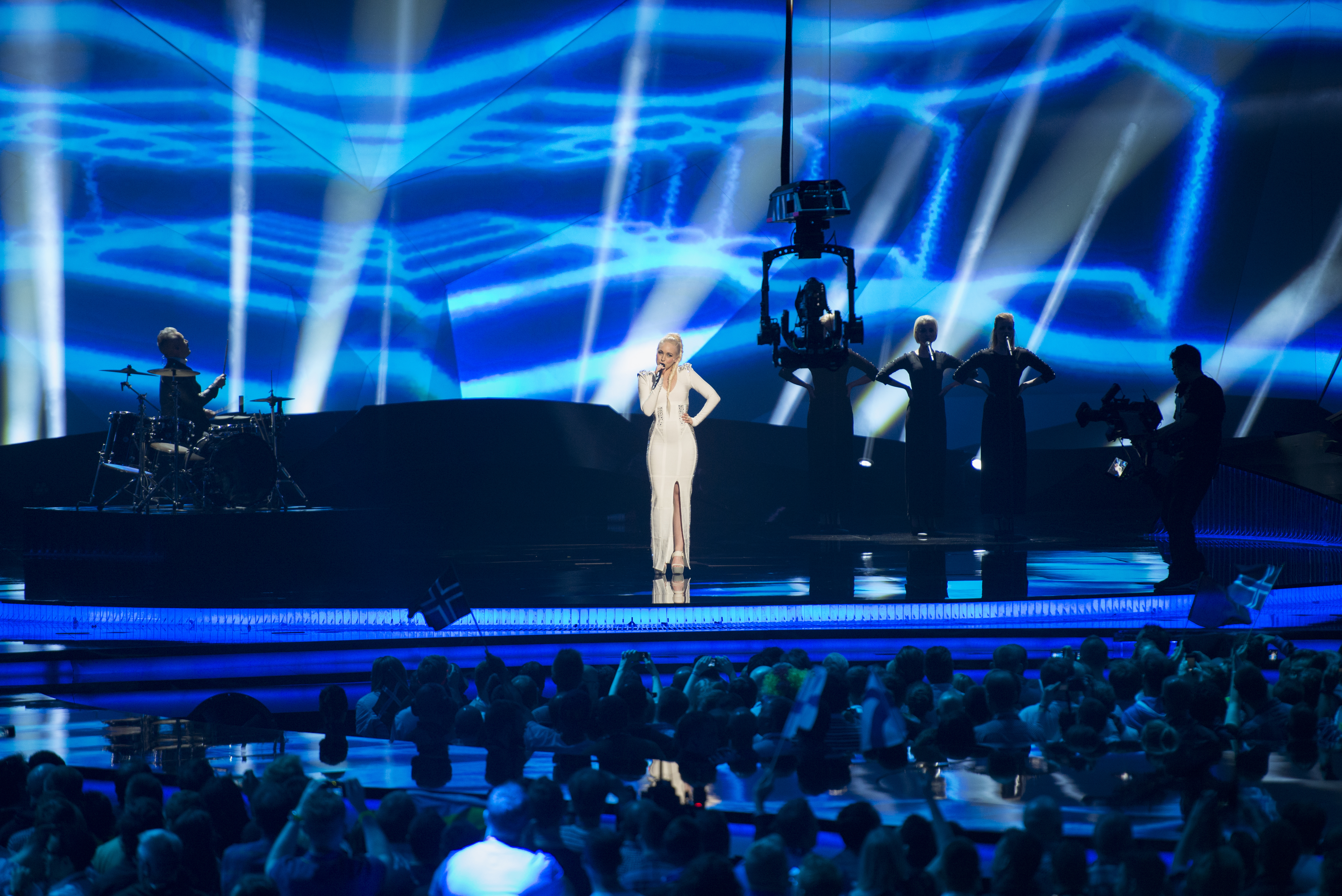 Margaret Berger representing Norway with the song "I Feed You My Love" during the second dress rehearsal of the second semi final of the Eurovision Song Contest 2013 in Malmö. (Help translate this text)